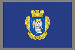 Flag of Kiev design by O. Rudenko